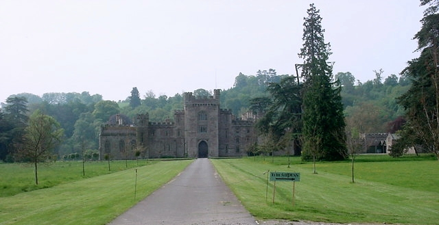 Hampton Court near Hope Under Dinmore in Herefordshire, England